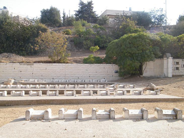 67 stones in memory of 67 innocent Jews, men, women, boys and girls, children and babys raped and slaughrered by Hebron Arabs, while under British mandate. Remaining Jews were evacuated "for their own safety" and brought to Jerusalem. On the Six Day War, when Hebron was freed by Jews, after nearly two thousand years of occupation by all big forces in the world, instead of letting the Arabs get what they deserved, Israel went out of anybody's normal way to cuddle the Arabs. Instead of building our rightful city, claining our birth right to our ancestral inheritance, Israel, being secular, and much worse, holds it as an occupied territory to make everybody happy ("legally" and "rightfully" hating the "cruel" "occupation") excluding the Jews who are persecuted as if we still were in the Diaspora/